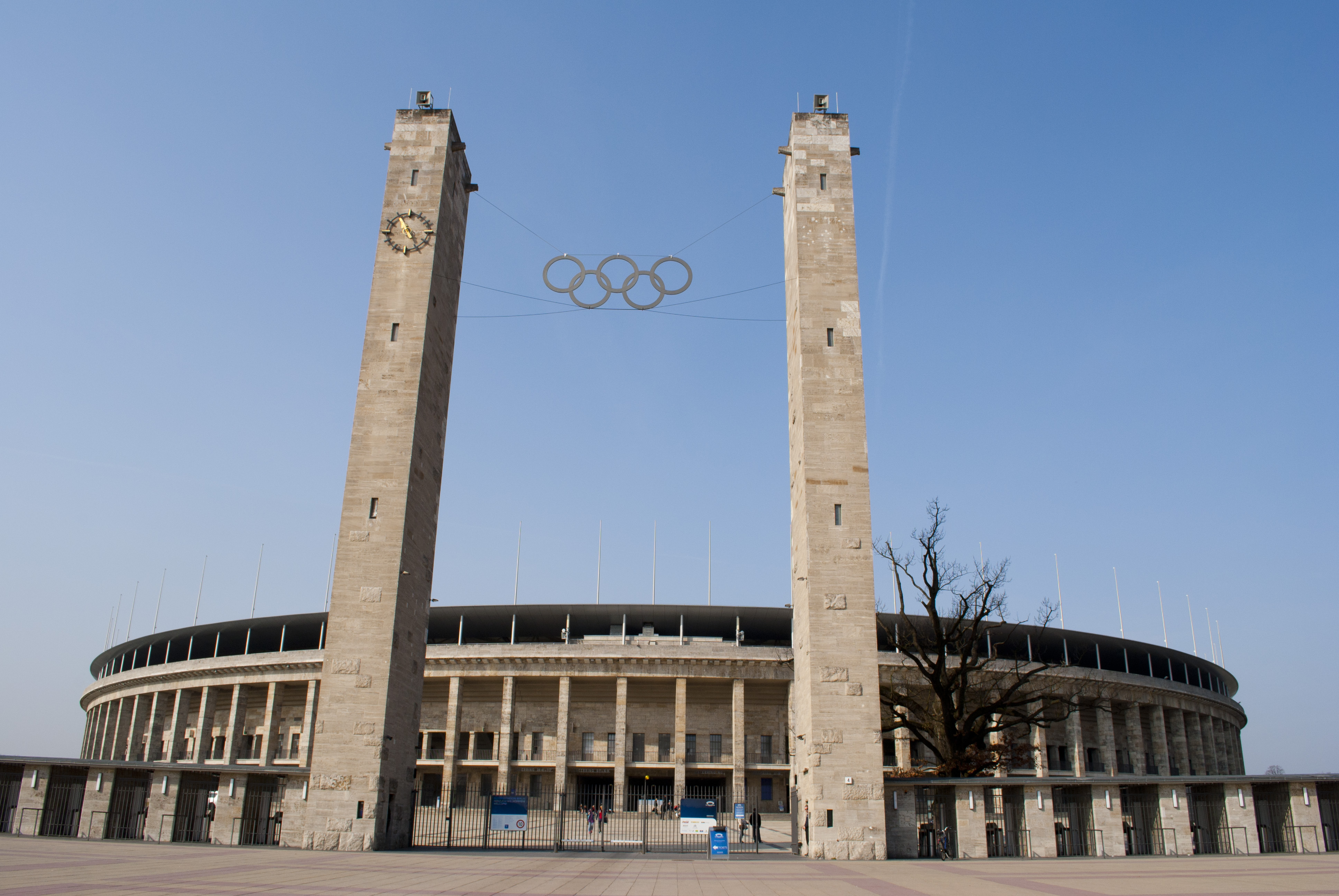 Berlin's Olympic Stadium, built for the 1936 games and renovated extensively in time for the 2006 FIFA World Cup. Originally could squeeze 100,000+ inside, currently seats 74,500, and is home to the Bundesliga's Hertha BSC.